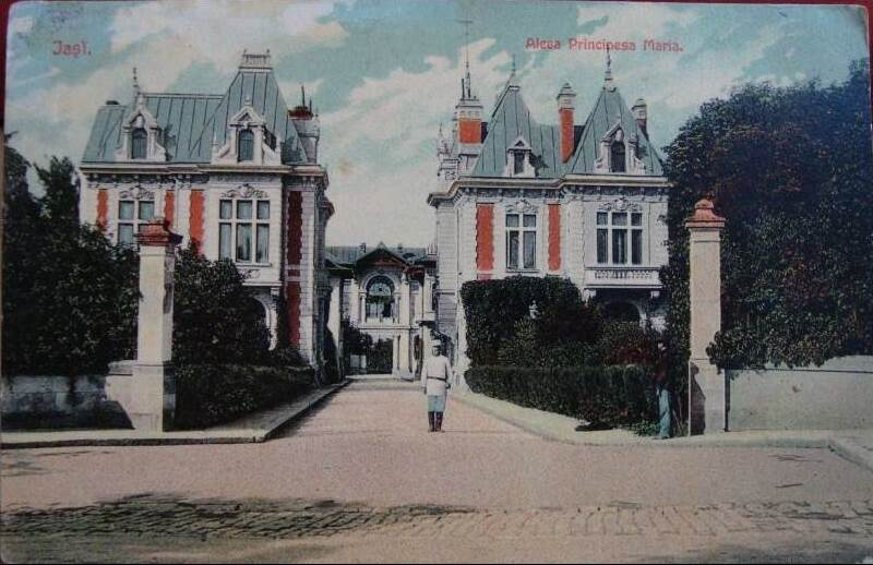 Princess Mary Alley (now Copou Alley), Iași, România